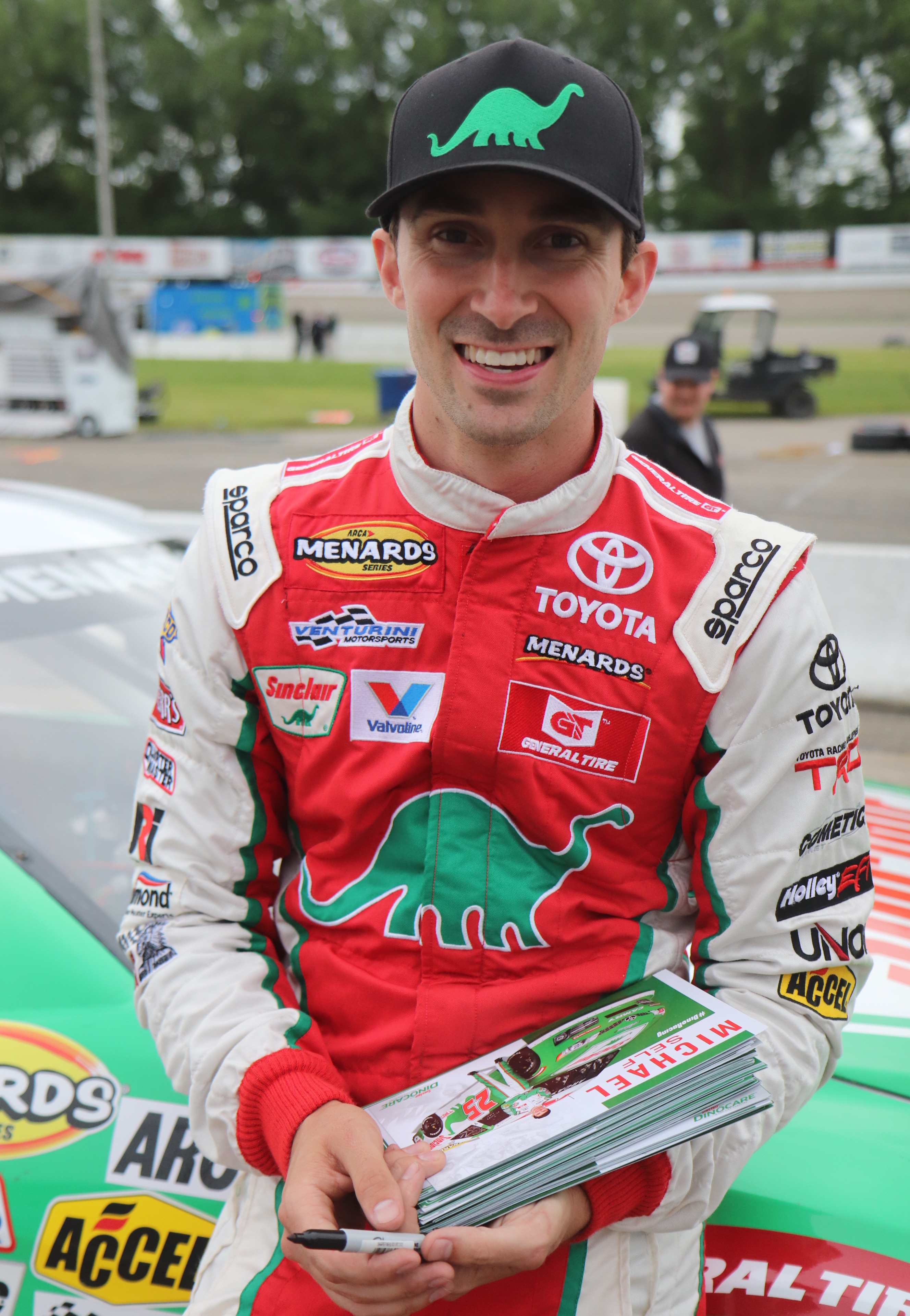 ARCA driver Michael Self posing for a photograph at Madison International Speedway.